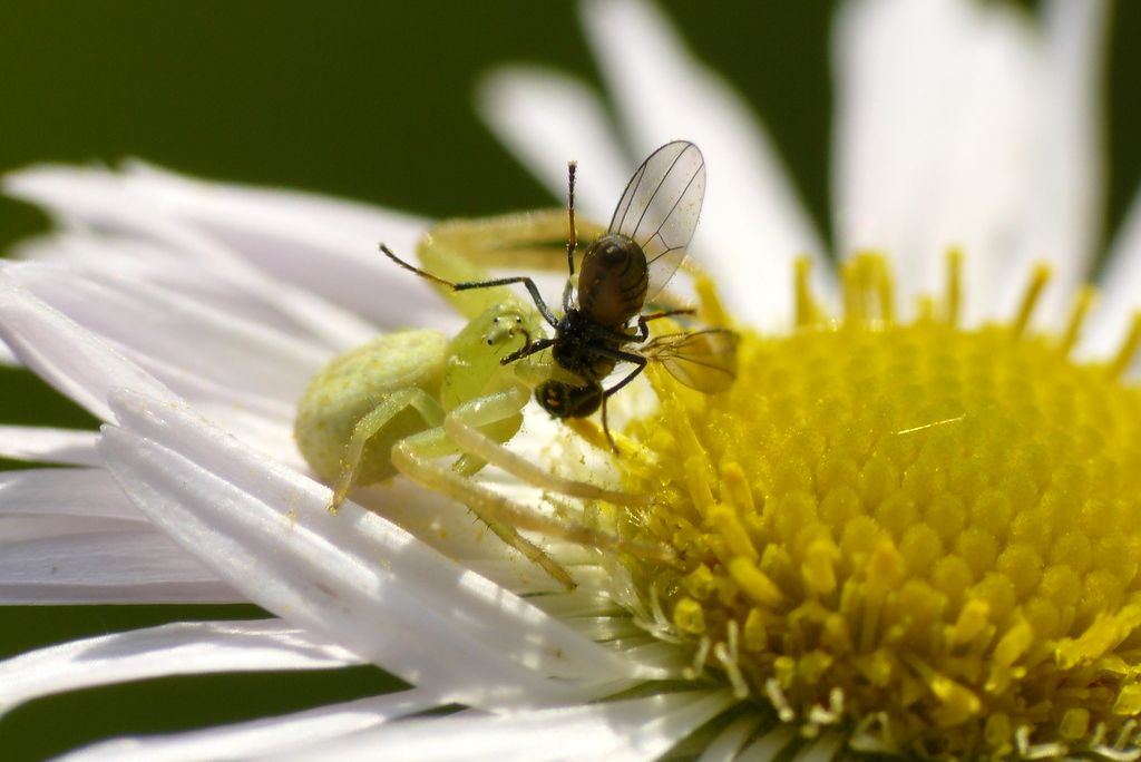 Misumena vatia